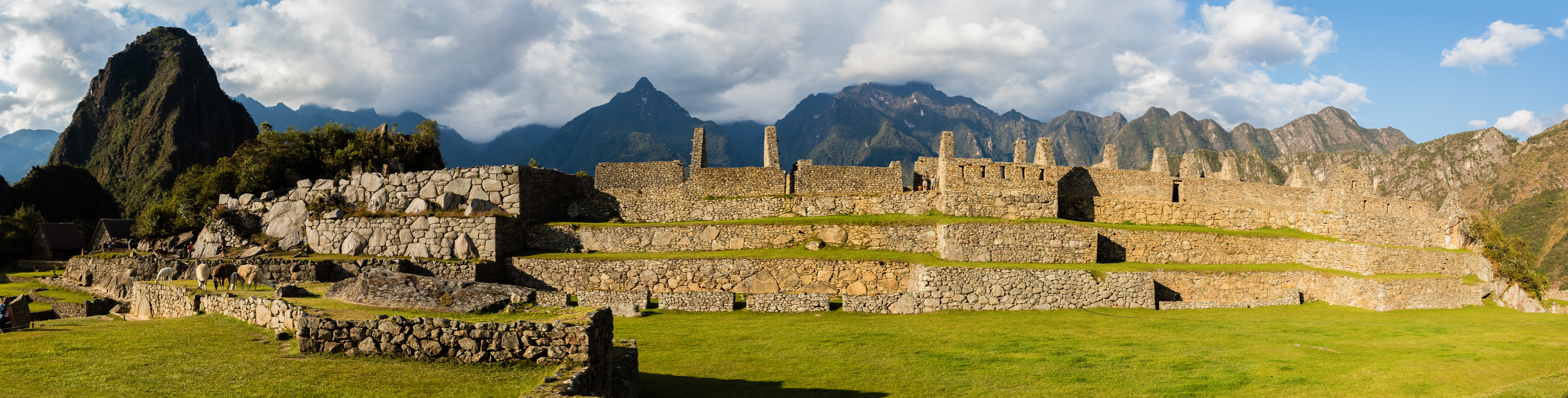 Machu Picchu, Peru